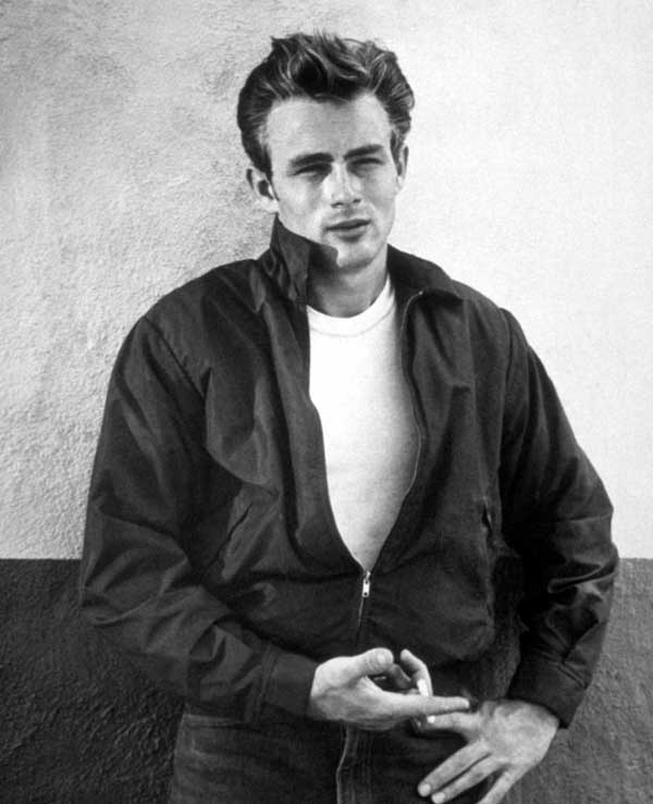 Publicity still of James Dean for the film Rebel Without a Cause